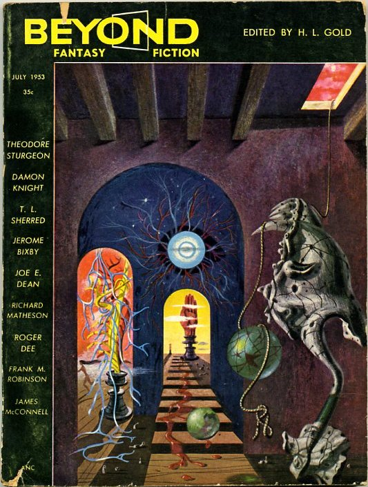 Cover of July 1953 issue of Beyond Fantasy Fiction. Artist is Richard Powers. Copyright was either Powers, or more likely Galaxy Publishing Corporation, who published the magazine. Since this magazine was first published in the U.S. before 1964, the original copyright lasted 27 years from the end of the year of first publication. The copyright holder was free to renew the copyright any time during the year 1981, but they did not do so. (All copyright renewals since 1977 are on file at the U.S. Copyright Office, and can be searched online here. The copyrights on certain individual stories were renewed, but the copyright on the cover was not.) The copyright has expired.